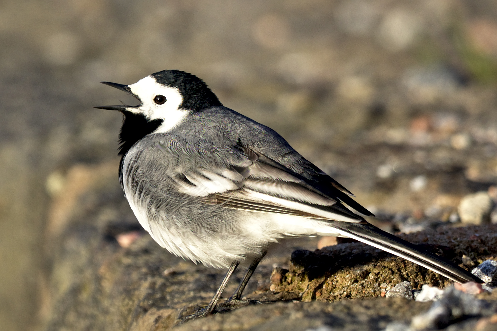 White wagtail (Motacilla alba alba), male in Eskilstuna, Sweden. 13 April 2016.